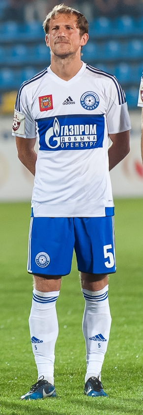 Roman Vorobiev